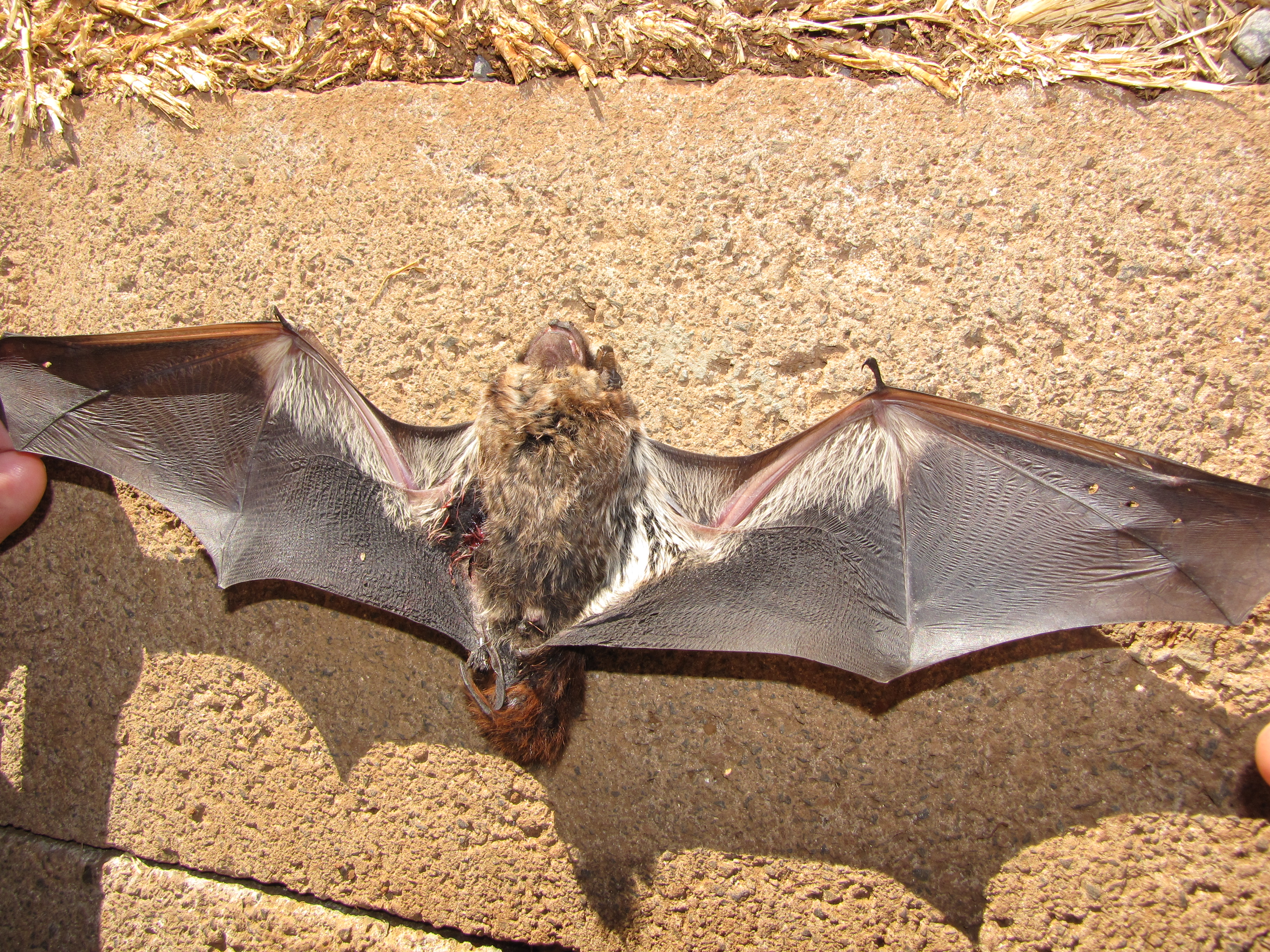 Eucalyptus sp. (Eucalyptus) Habitat with Hawaiian hoary bat Lasiurus cinereus semotus at Olinda, Maui, Hawaii. September 07, 2010 #100907-9073 Image Use Policy